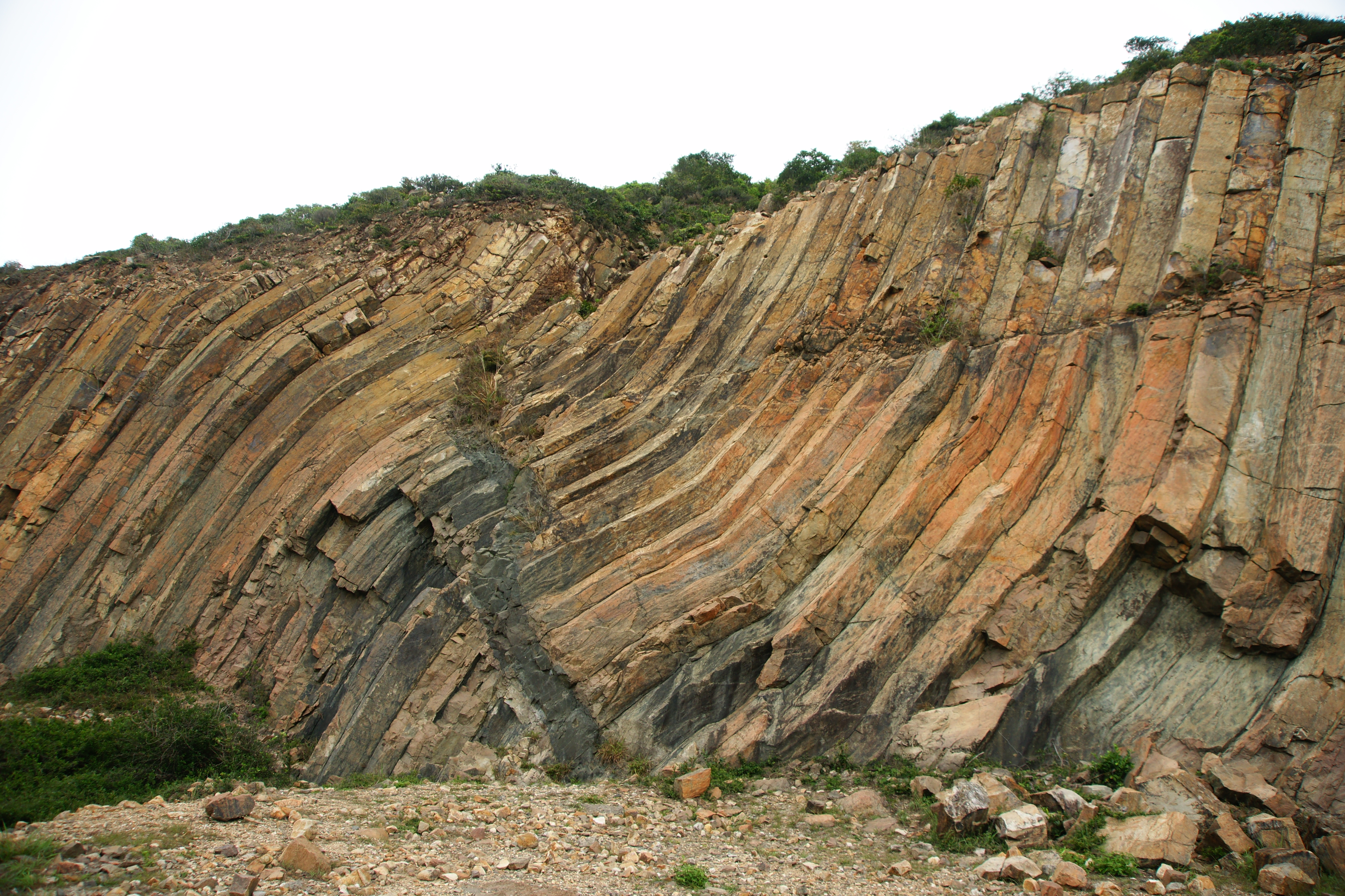 Sai Kung Folded Rock